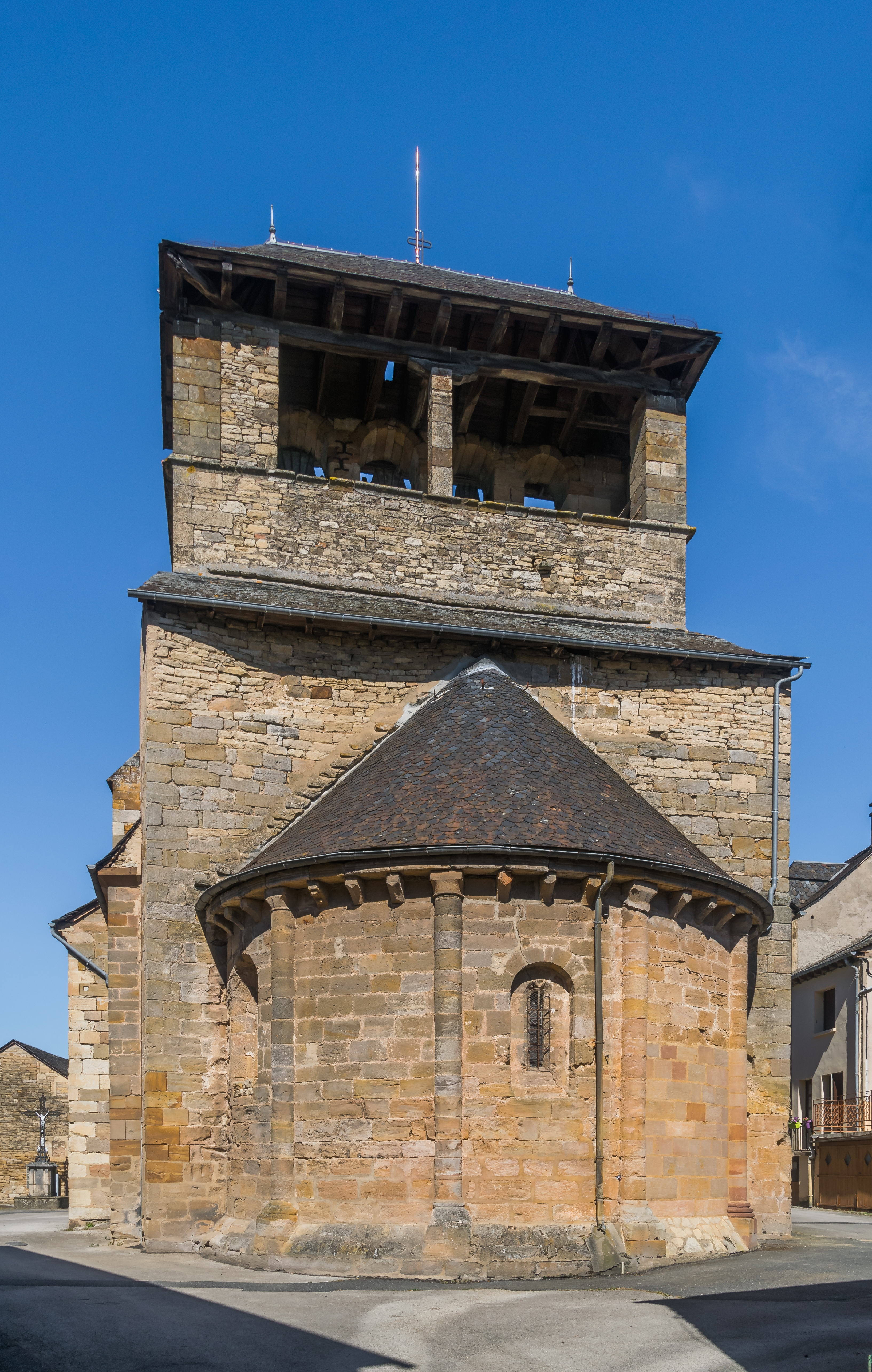 Saint Lawrence Church of Cruéjouls, Aveyron, France